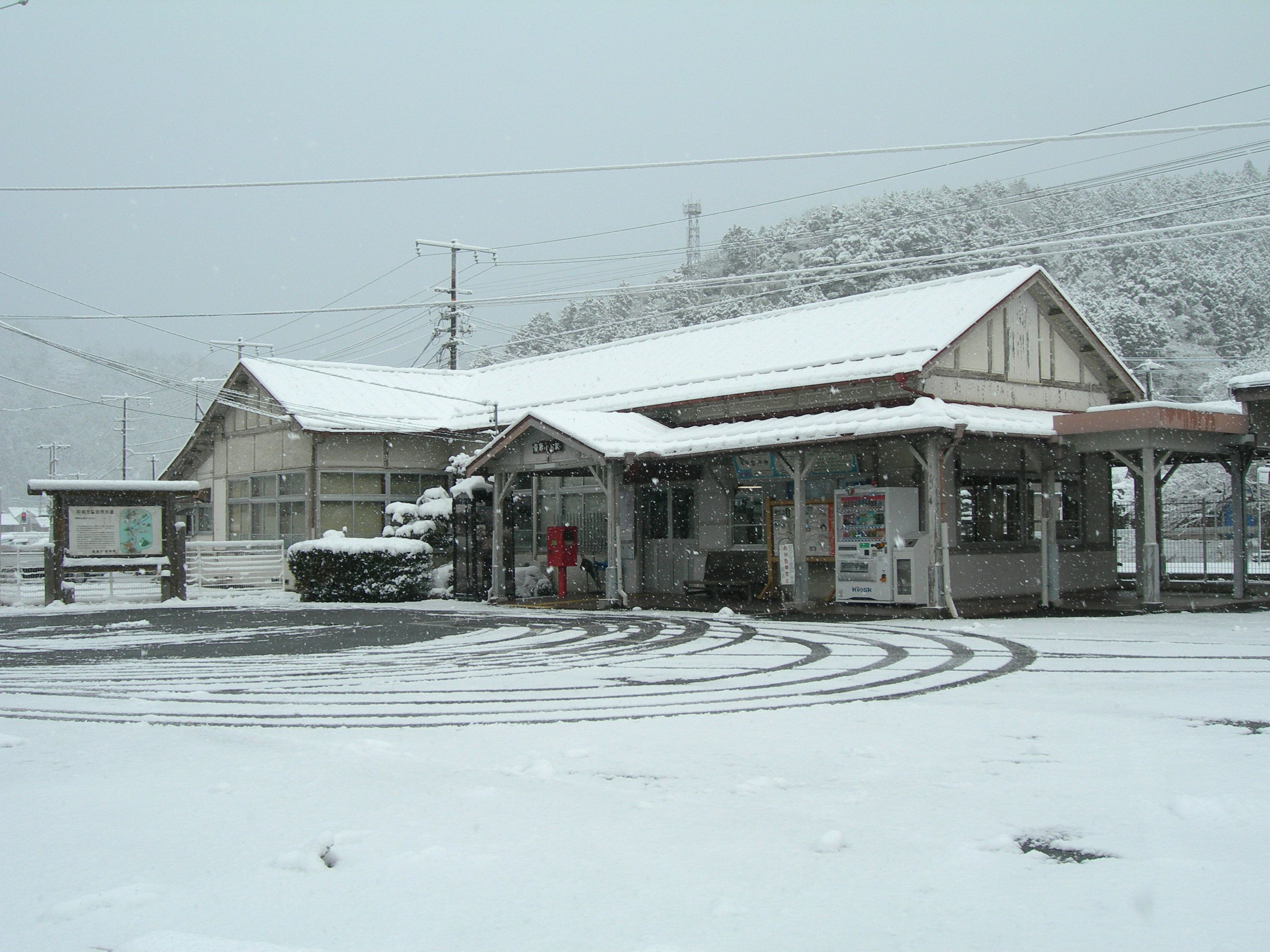 Hida-Kanayama Station